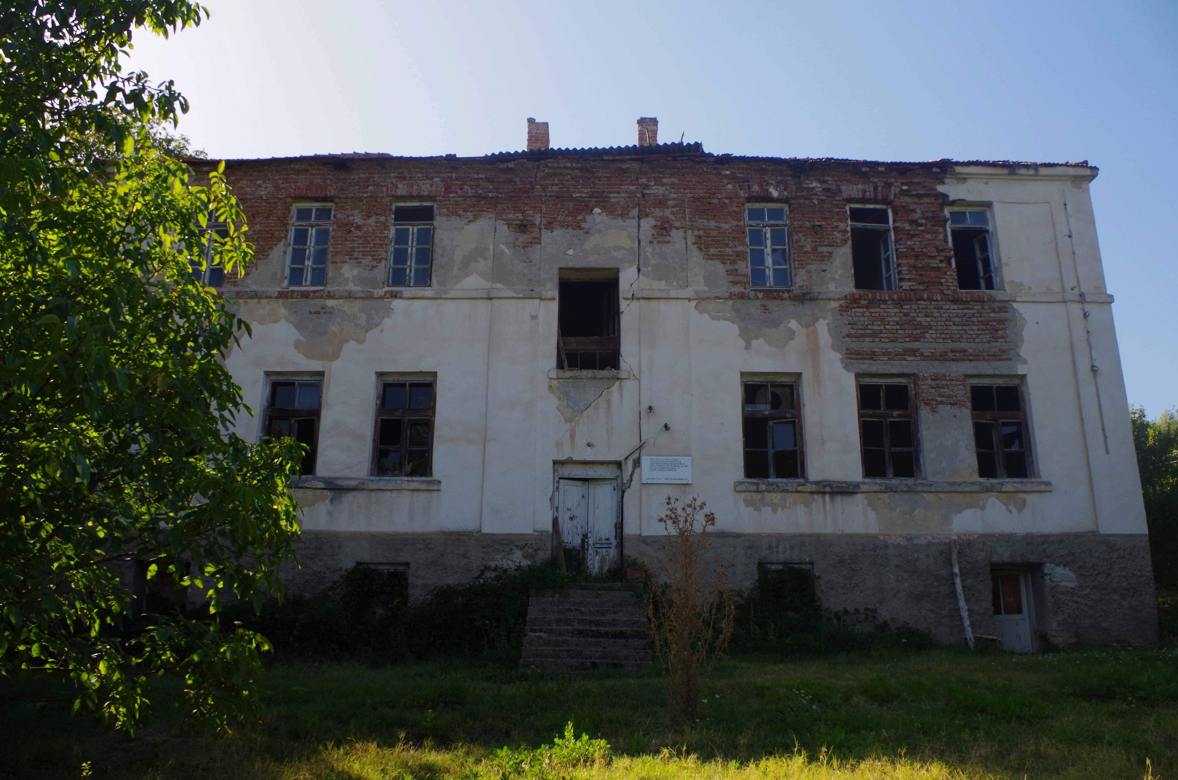 Former school building in the village of Bohula